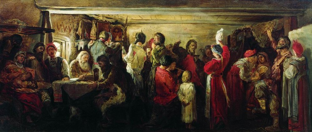 Peasant Wedding in the Tambov guberniya, 1880, oil on canvas. Tretyakov Gallery